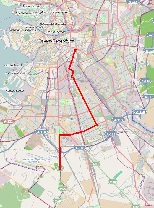 Fast tram in Saint Petersburg